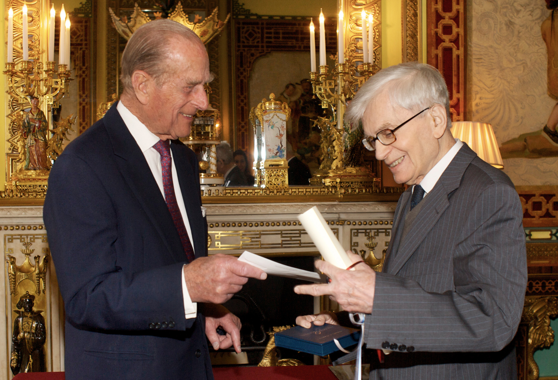 Bernard D'Espagnat receives prize from HRH The Duke of Edinburgh, Buckingham Palace